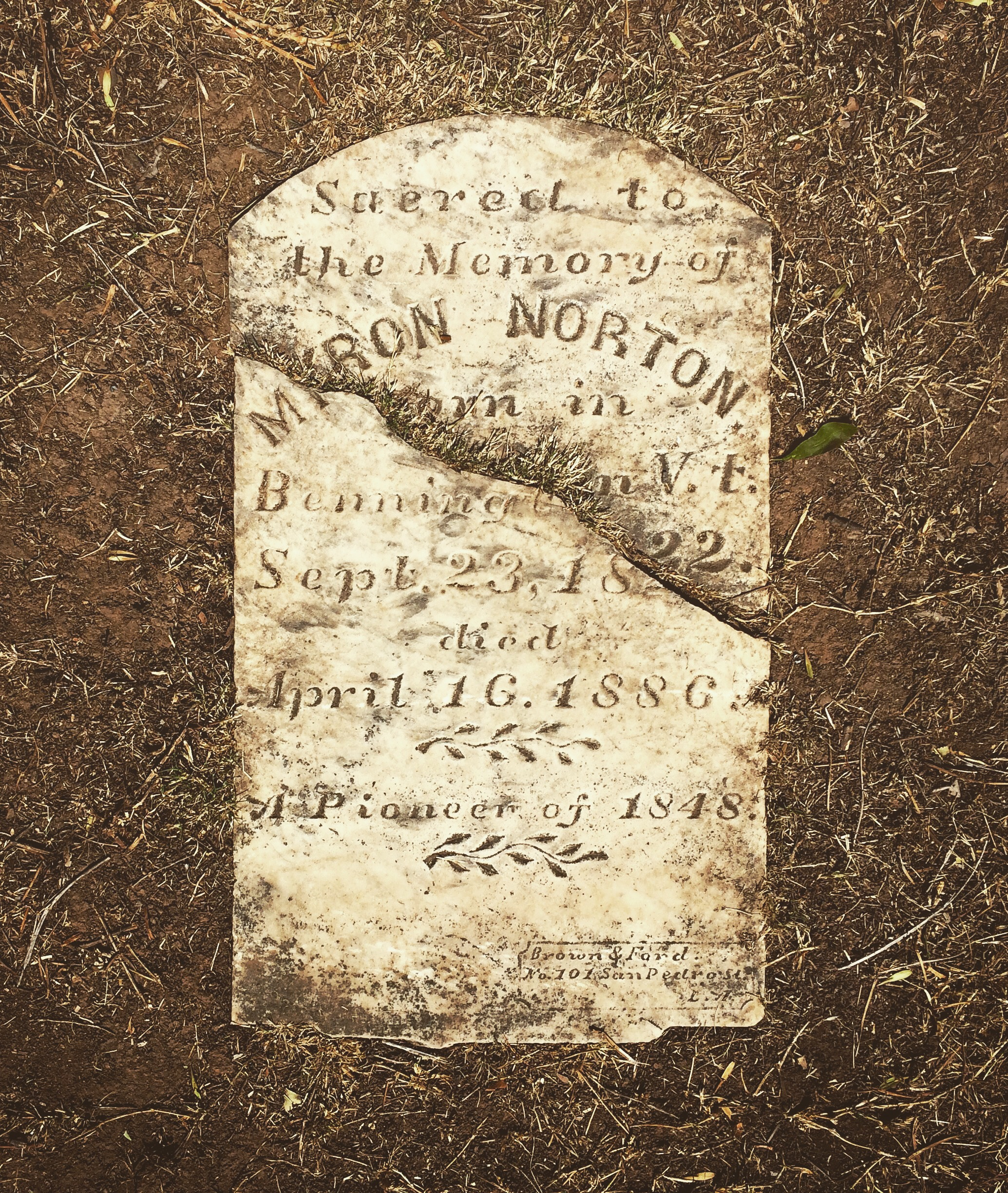 Headstone of Myron Norton (1822-1886) at Evergreen Cemetery, Los Angeles, California.